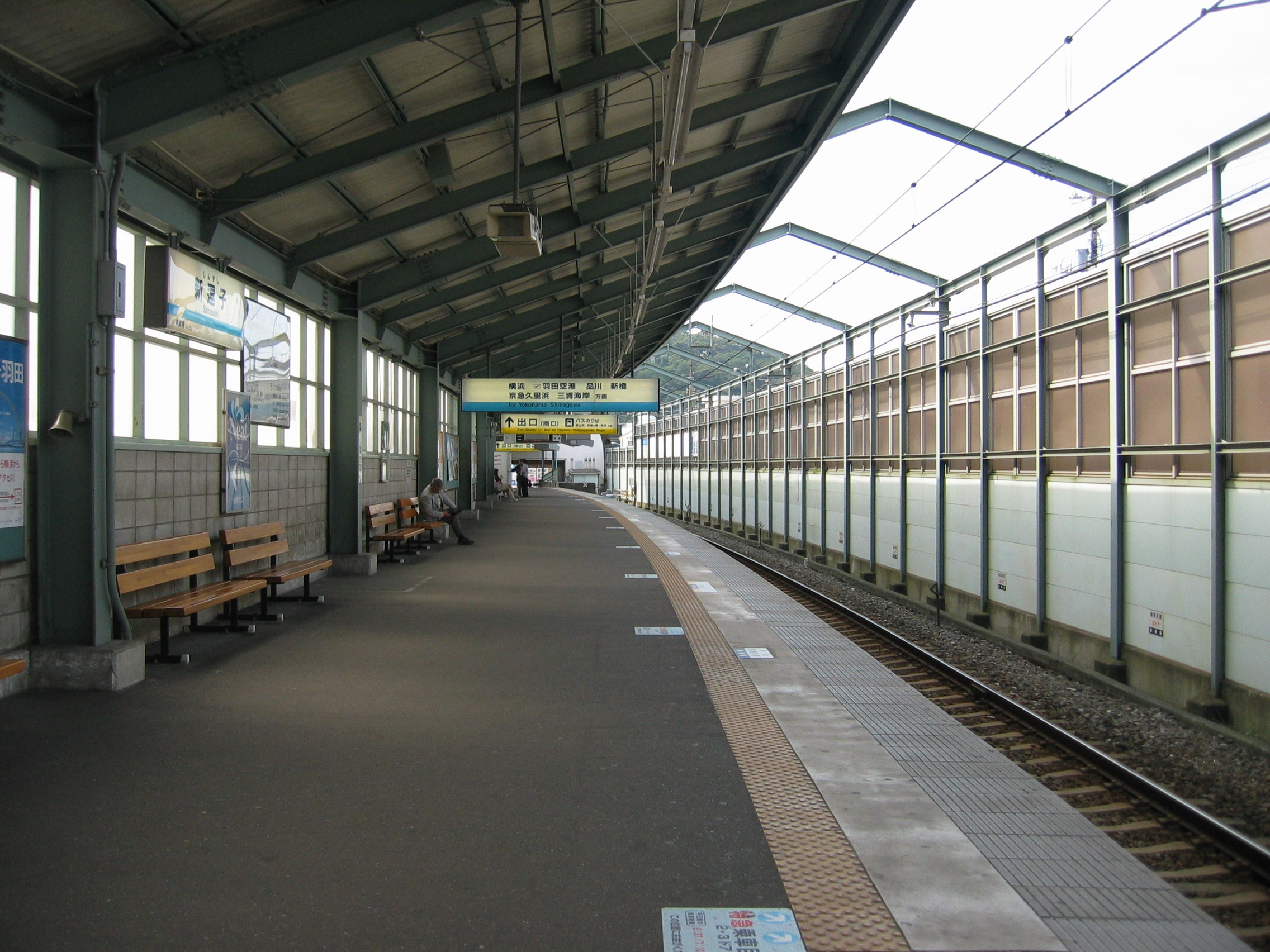 Keikyu Zushi Line,Keikyu-Shin-Zushi Station platform(Kanagawa, Japan)